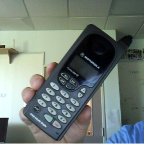 Motorola Profile 300e (front view)